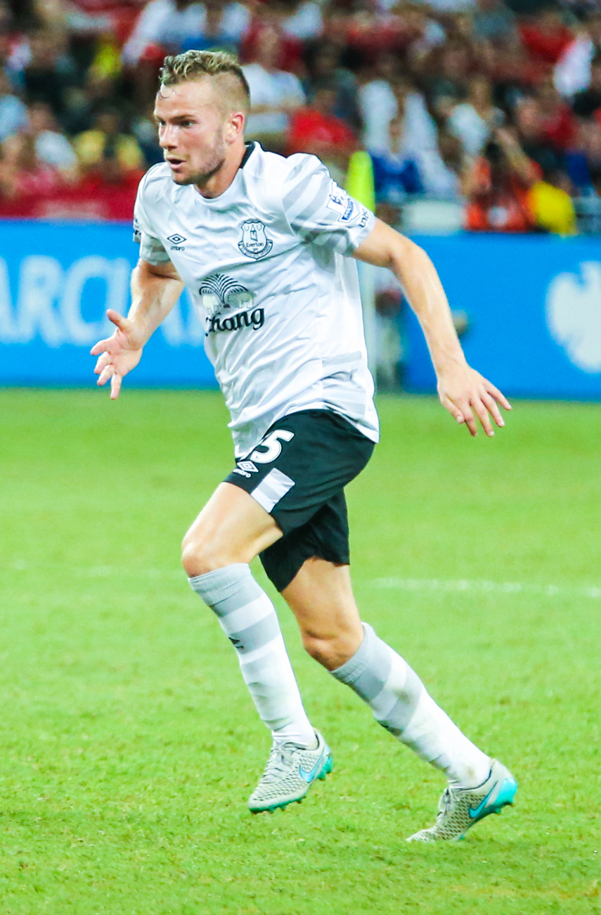 Tom Cleverley playing for Everton in pre-season friendly against Arsenal on 18 July 2015.